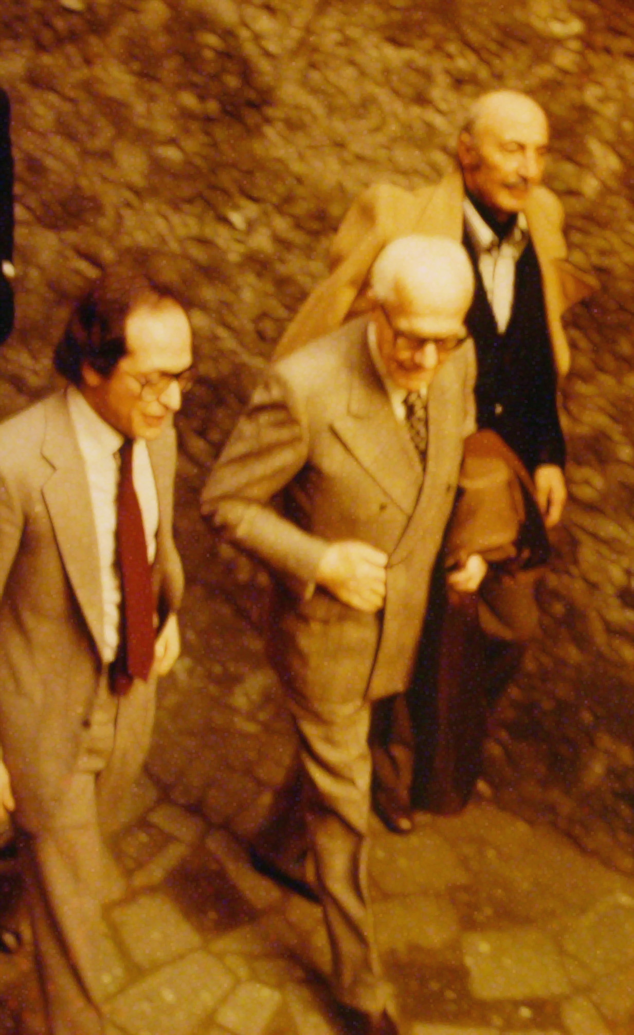 Walk in Marino with the master Umberto Mastroianni e il presidente della Republica Italiana Sandro Pertini